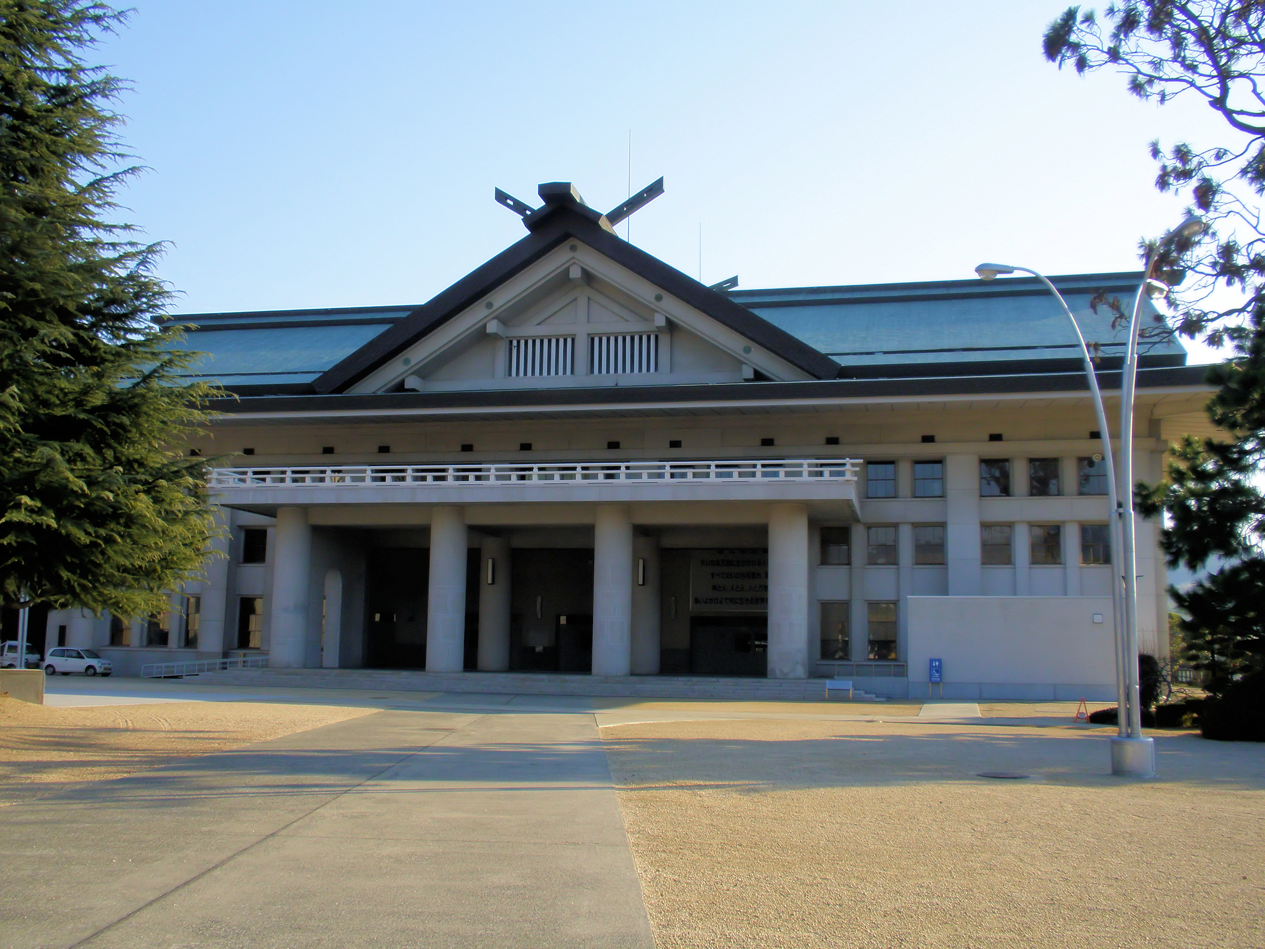 Grand Service Hall at Konkokyo Headquarters